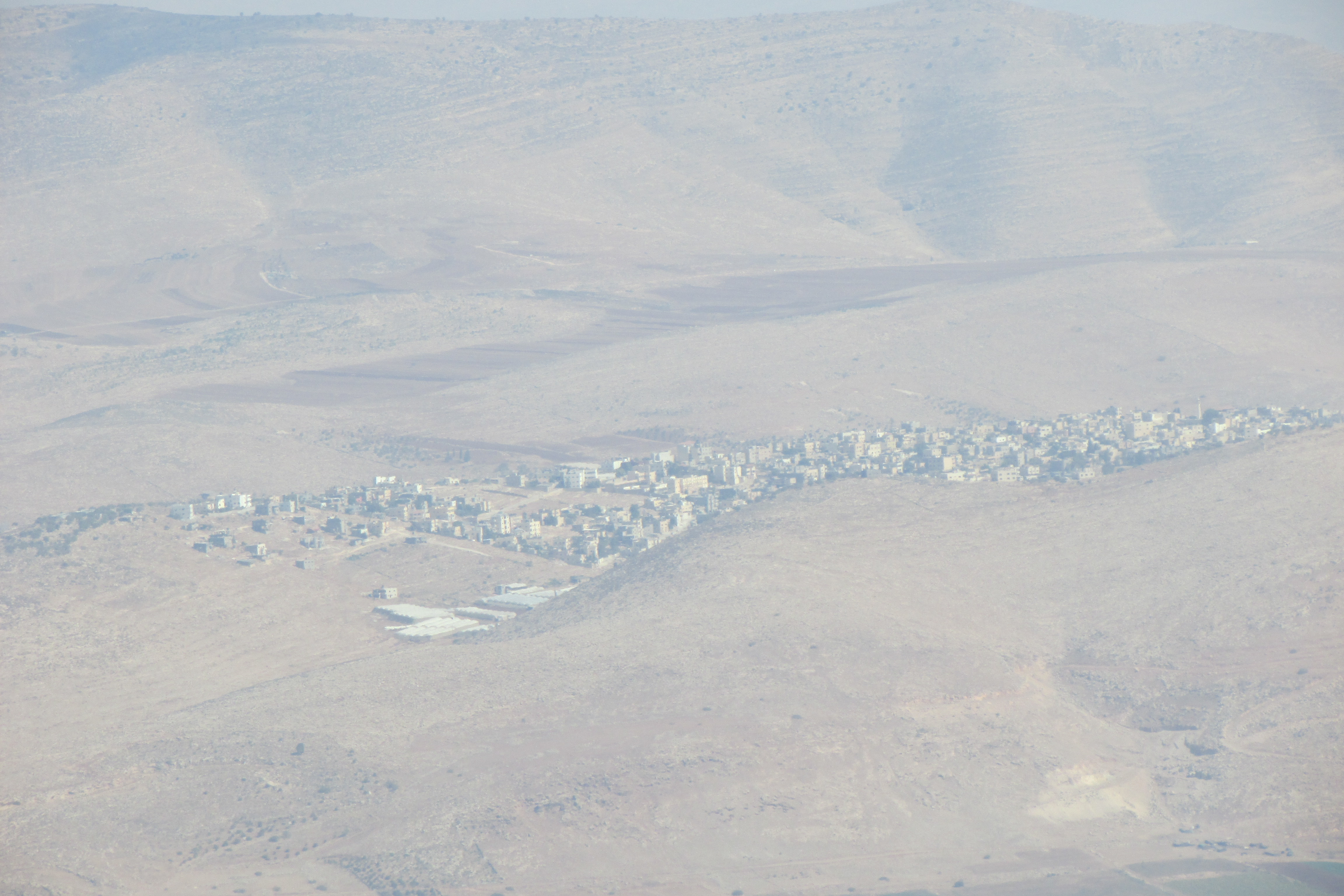 Tammun from Mount Ebal.